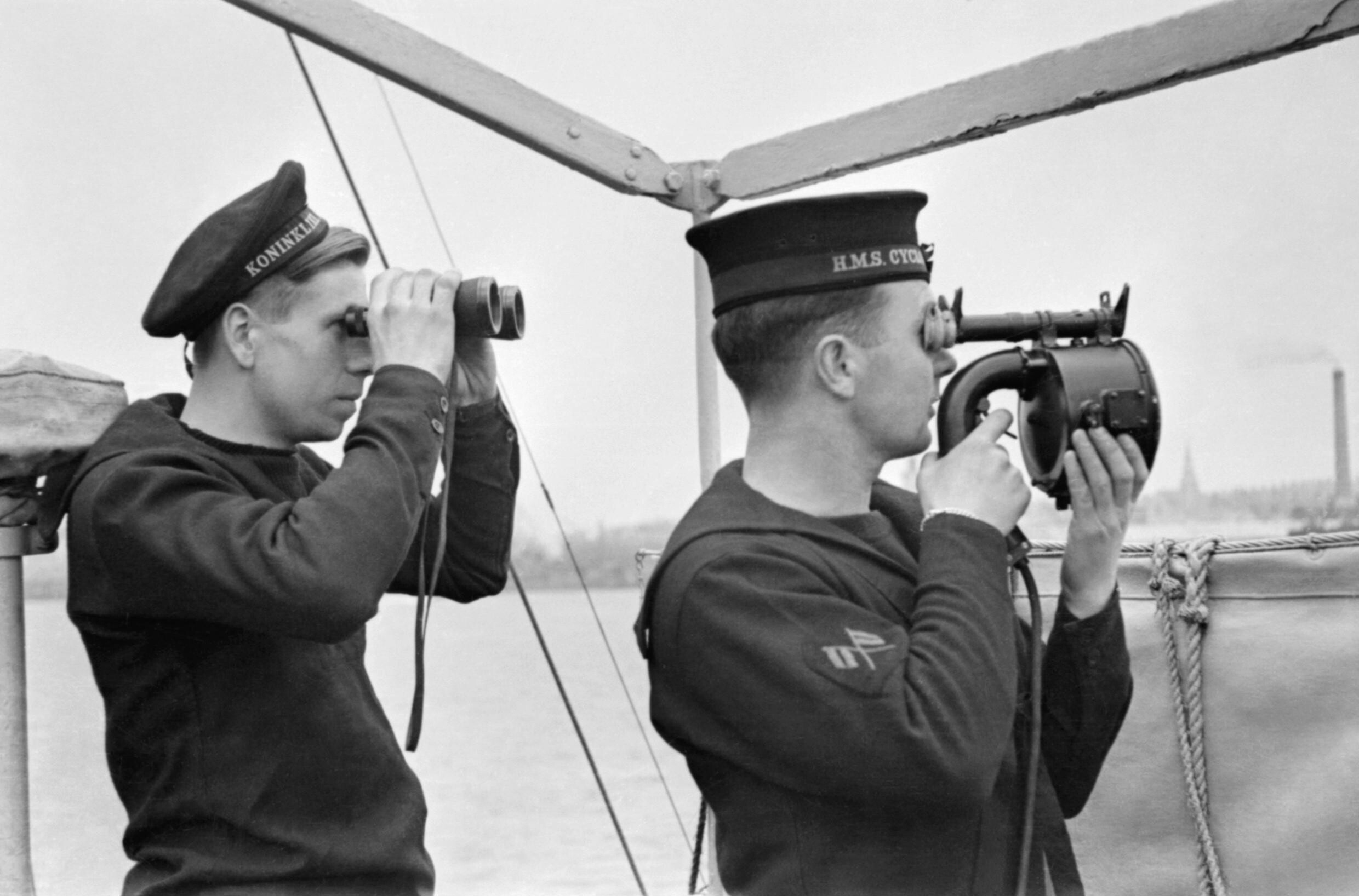 A British sailor signalling by hand held flash lamp aboard the Dutch Torpedo Boat Z 5 as it serves with the British Fleet. His dutch shipmate is looking out for the reply through a pair of binoculars, 1941. A British sailor signalling by hand held flash lamp aboard the Dutch Torpedo Boat Z 5 as it serves with the British Fleet. His dutch shipmate is looking out for the reply through a pair of binoculars.